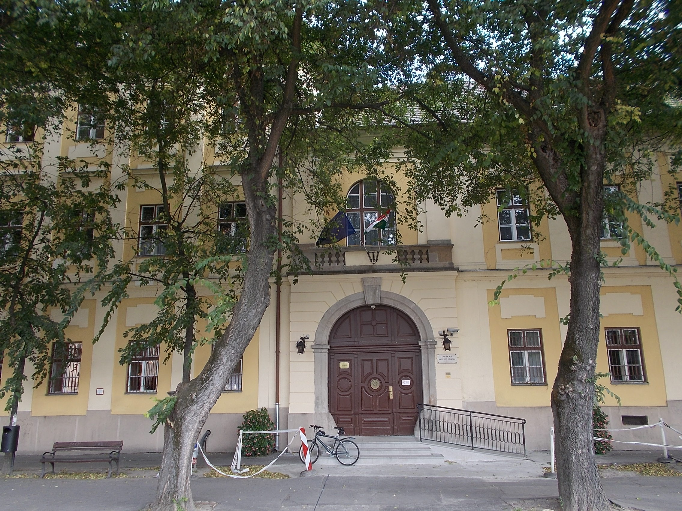 The Seminar is a listed building. It was built by Bishop Migazzi according on plans of the Viennese architect Joseph Meissl. It was enlarged with side-wings and a storey on the basis of Kálmán Váczy Hübschl's plans. It hosted the grammar school of Vác from the secularization until 1995. - 1-5 Konstantin Sqare, Vác